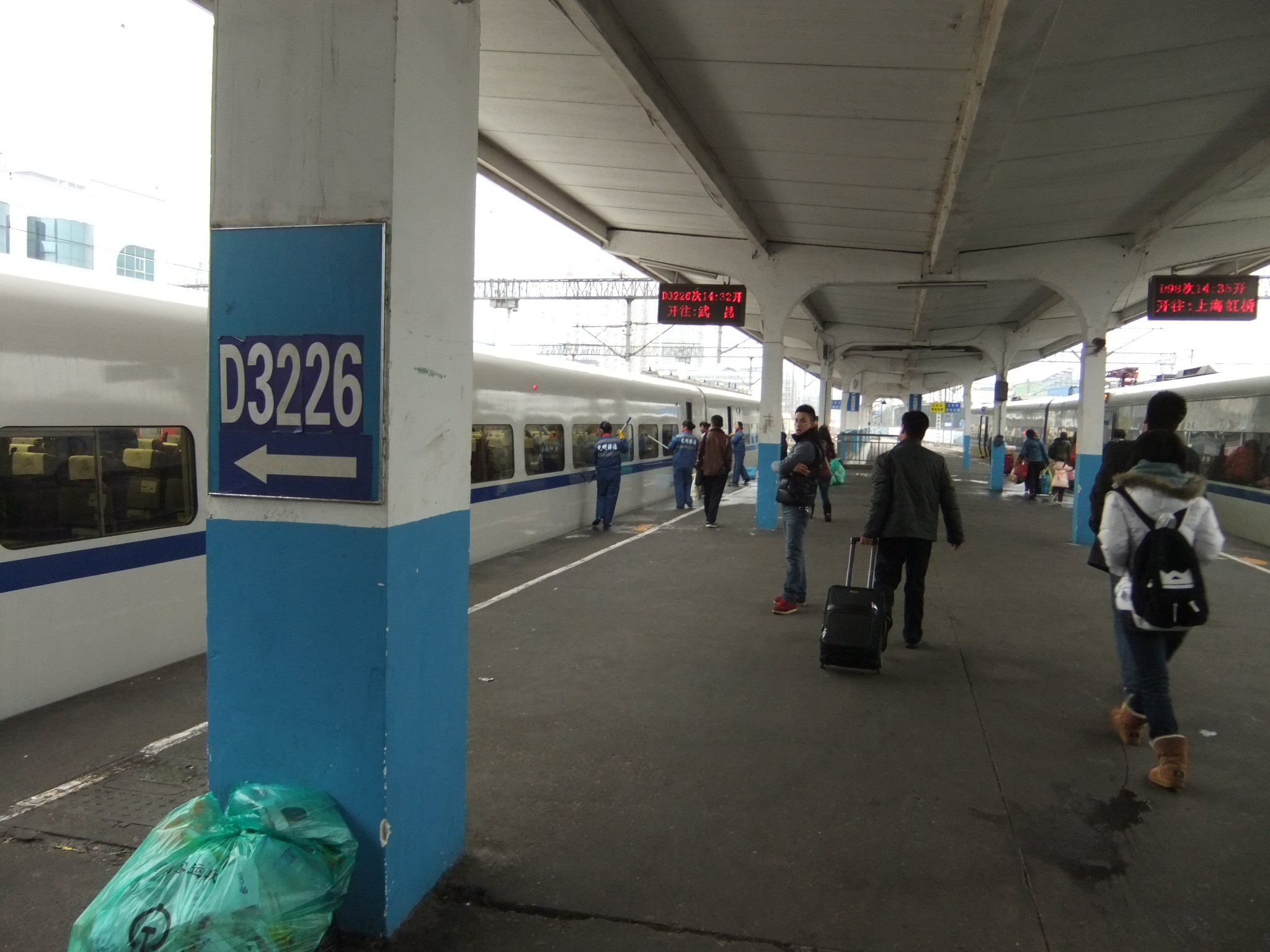 Nanchang Railway Station.